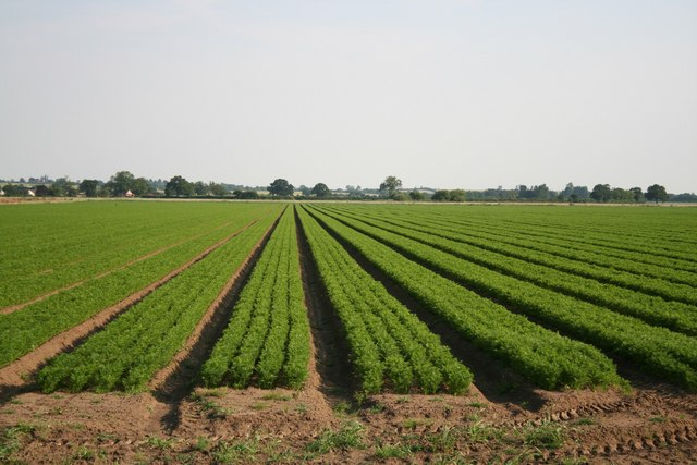 Carrots near Harby, Nottinghamshire, Great Britain. Looking towards Swinethorpe